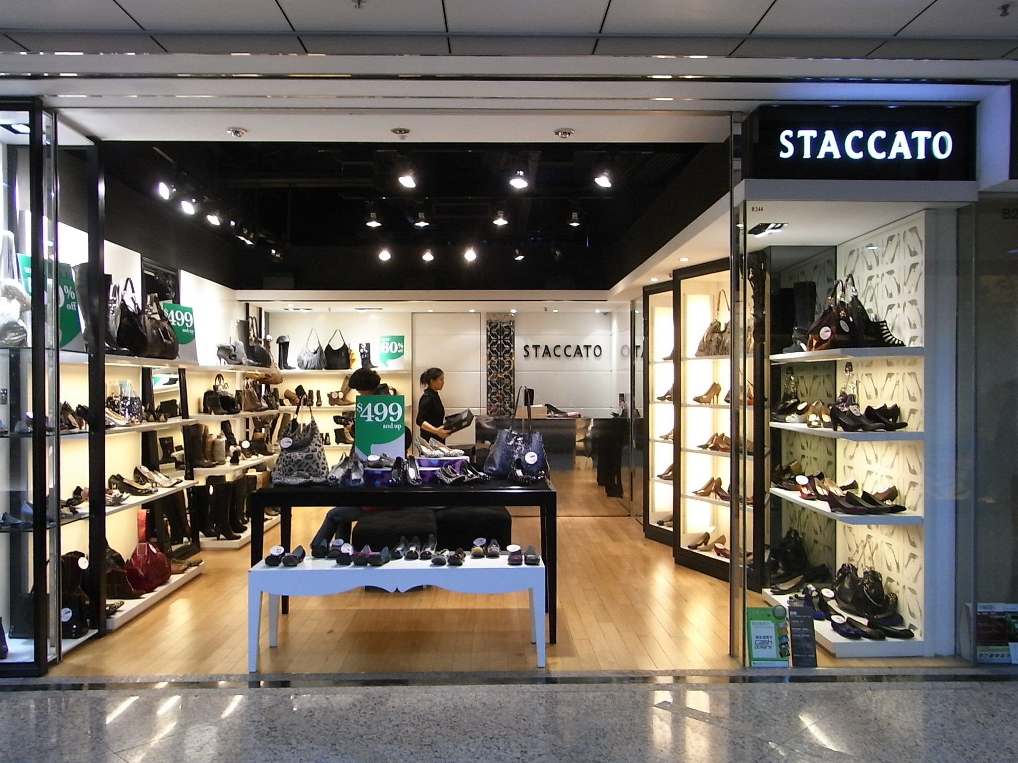 香港時代廣場 地庫商場